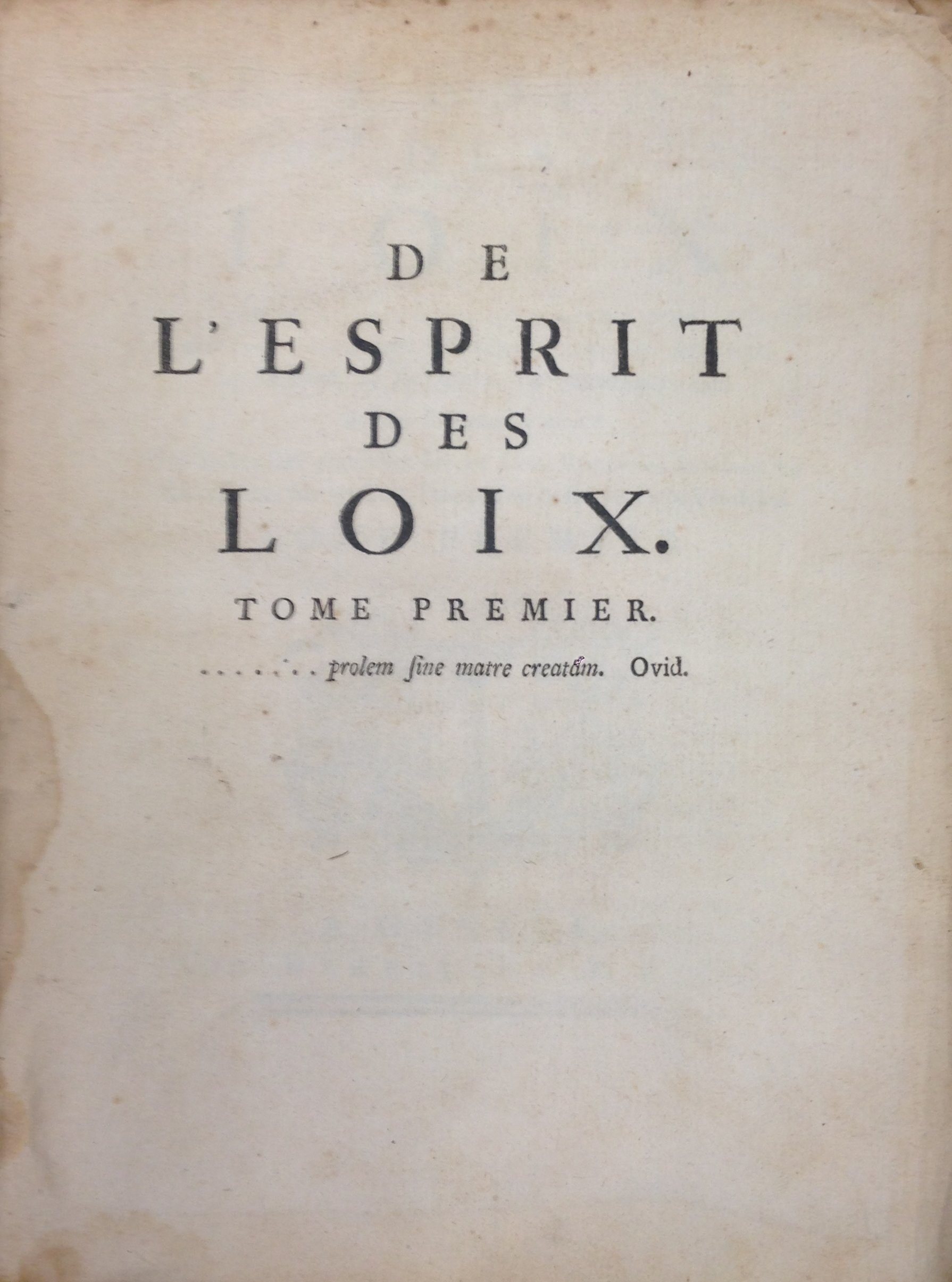 The half title of volume 1 of Charles-Louis de Secondat, Baron de La Brède et de Montesquieu (1748) De l'Esprit des loix ou du rapport que les Loix doivent avoir avec la Constitution de chaque Gouvernement, les Moeurs, le Climat, la Religion, le Commerce, &c : à quoi l'Auteur a ajouté Des recherches nouvelles sur les Loix Romaines touchant les Successions, sur les Loix Françoises, & sur les Loix Féodales [The Spirit of the Laws, or the rapport that the Laws should have with the Constitution of each Government, the Customs, the Climate, the Religion, the Commerce, &c: to which the Author has added new research on the Roman Laws concerning Succession, on French Laws, and on the Feudal Laws], Geneva: Barrillot & Fils OCLC: 150438488. The epigraph "... prolem sine matre creatam" ("... a child brought forth without a mother") is from Ovid's Metamorphoses, II, 553.